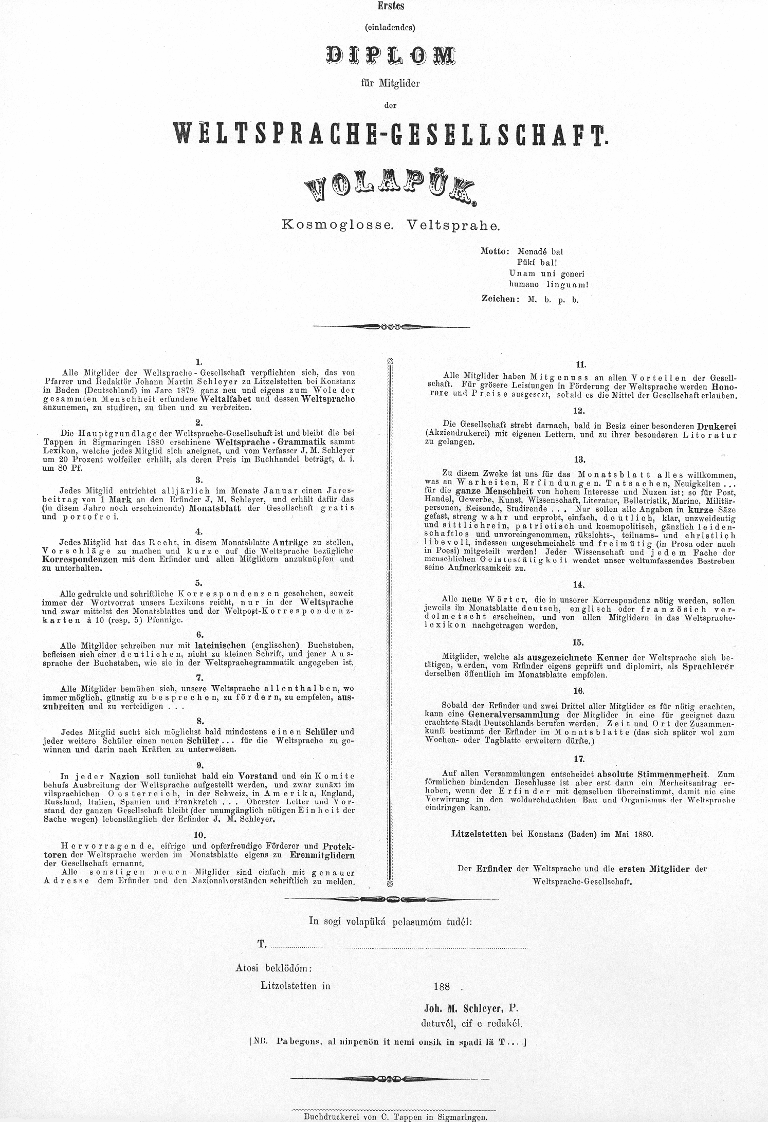 A diploma for 'new Volapükists'